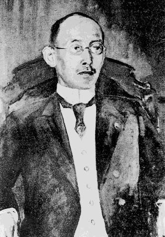 Kinnosuke Miura, Japanese neurologist (1864–1950)